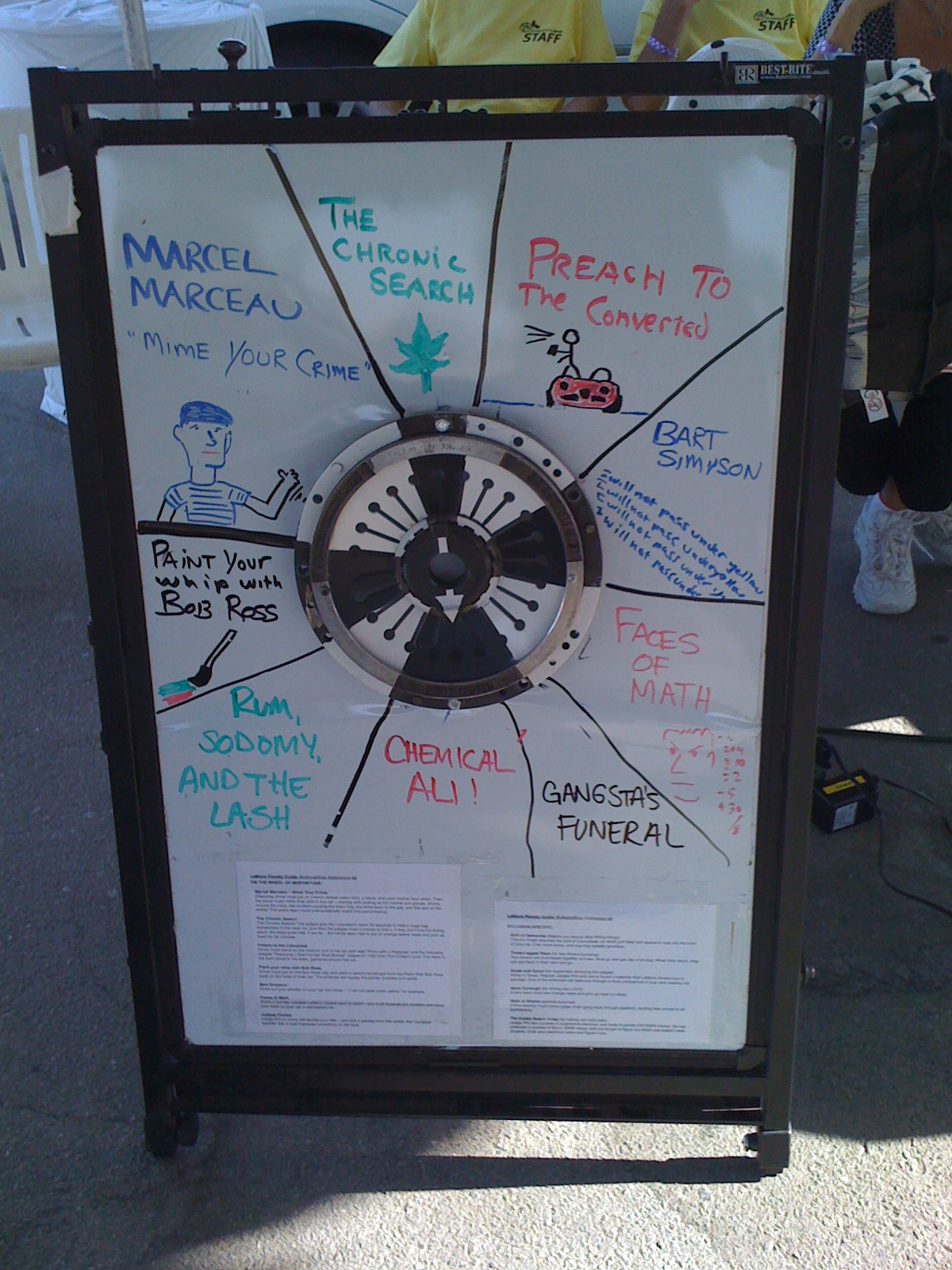 The Wheel of Misfortune penalty assignment device for the 24 Hours of LeMons race; Buttonwillow, California 2009